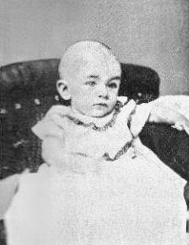 Sophia Briggs, daughter of Benjamin Briggs and passenger of Mary Celeste